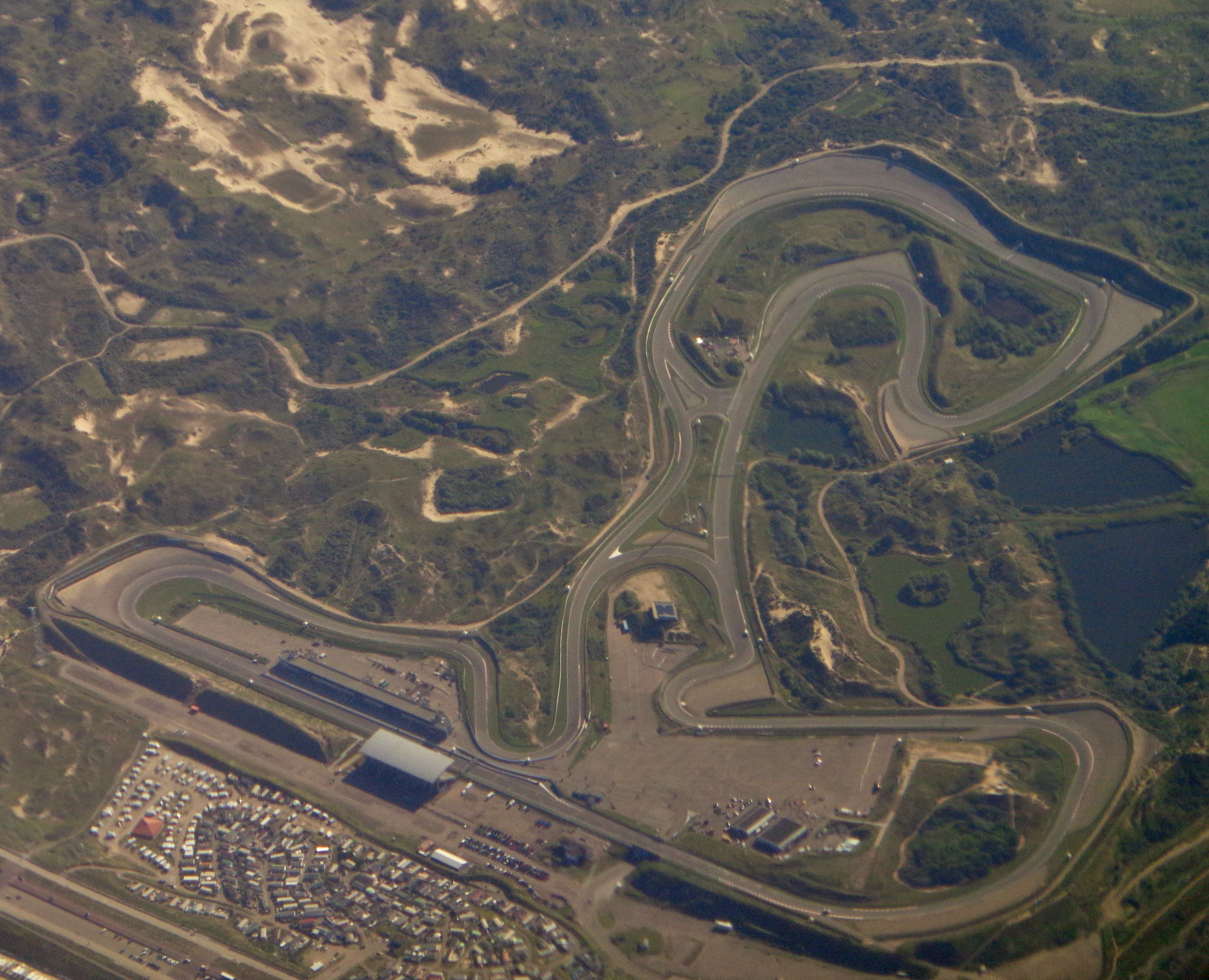 Circuit Park Zandvoort seen from an airplane.